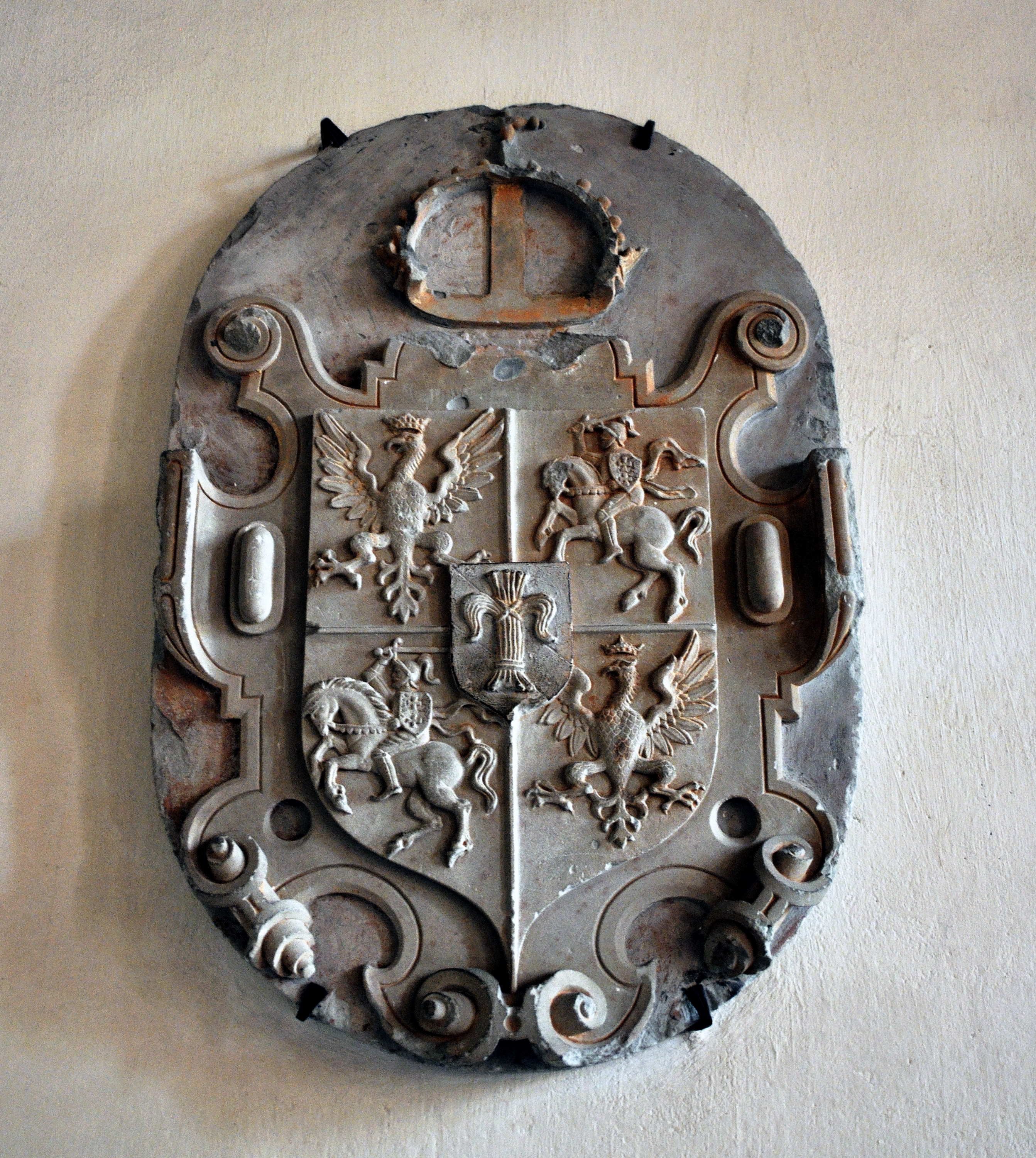 Picture taken in Malborg after Wikimania 2010 conference.